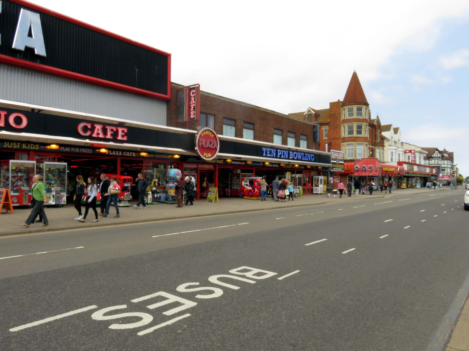 Amusement arcade on Grand Parade